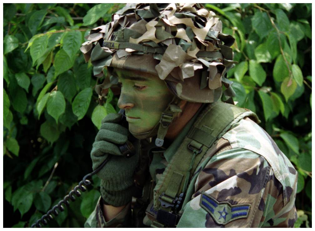 U.S. Air Force Tactical Air Controller (known as a Joint Terminal Attack Controller since 2004) talks on the radio with an A-10 Thunderbolt II pilot on a mountain in South Korea (June 2003). Photo by Peter Rimar.